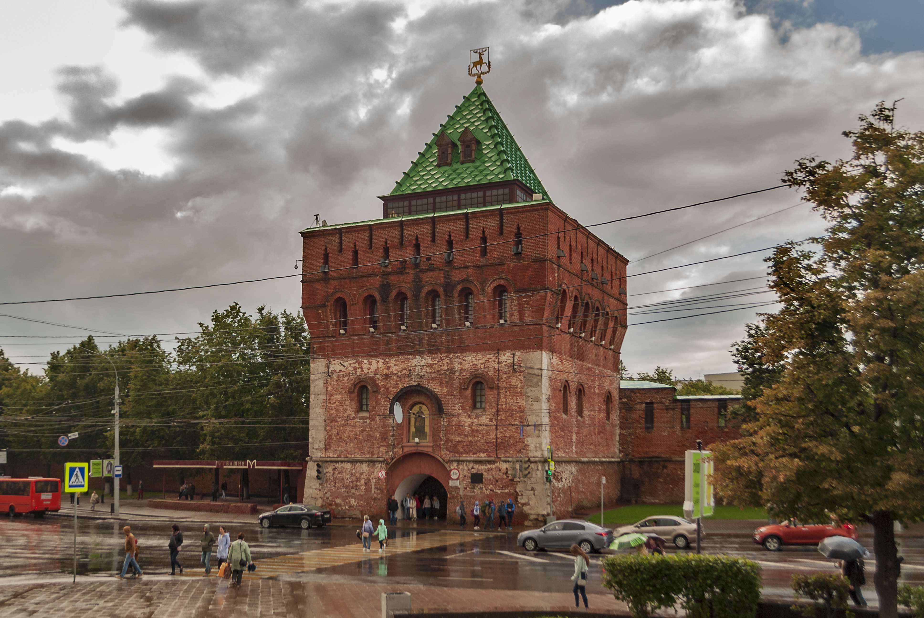 Dmitrievskaya tower of the Nizhny Novgorod Kremlin after rain